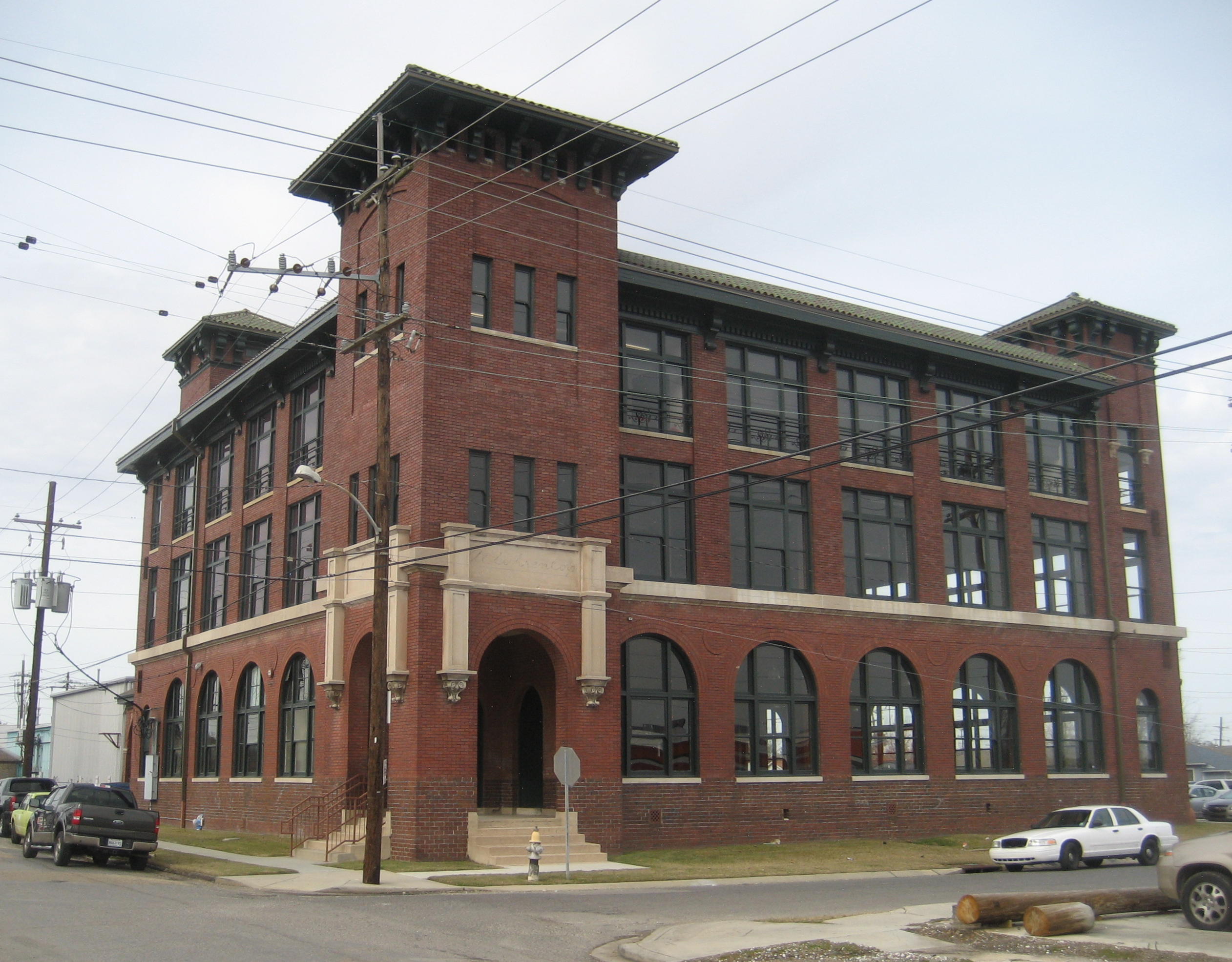 The old American Chicle Company Building, New Orleans. View from corner of Fig & Dante Streets.